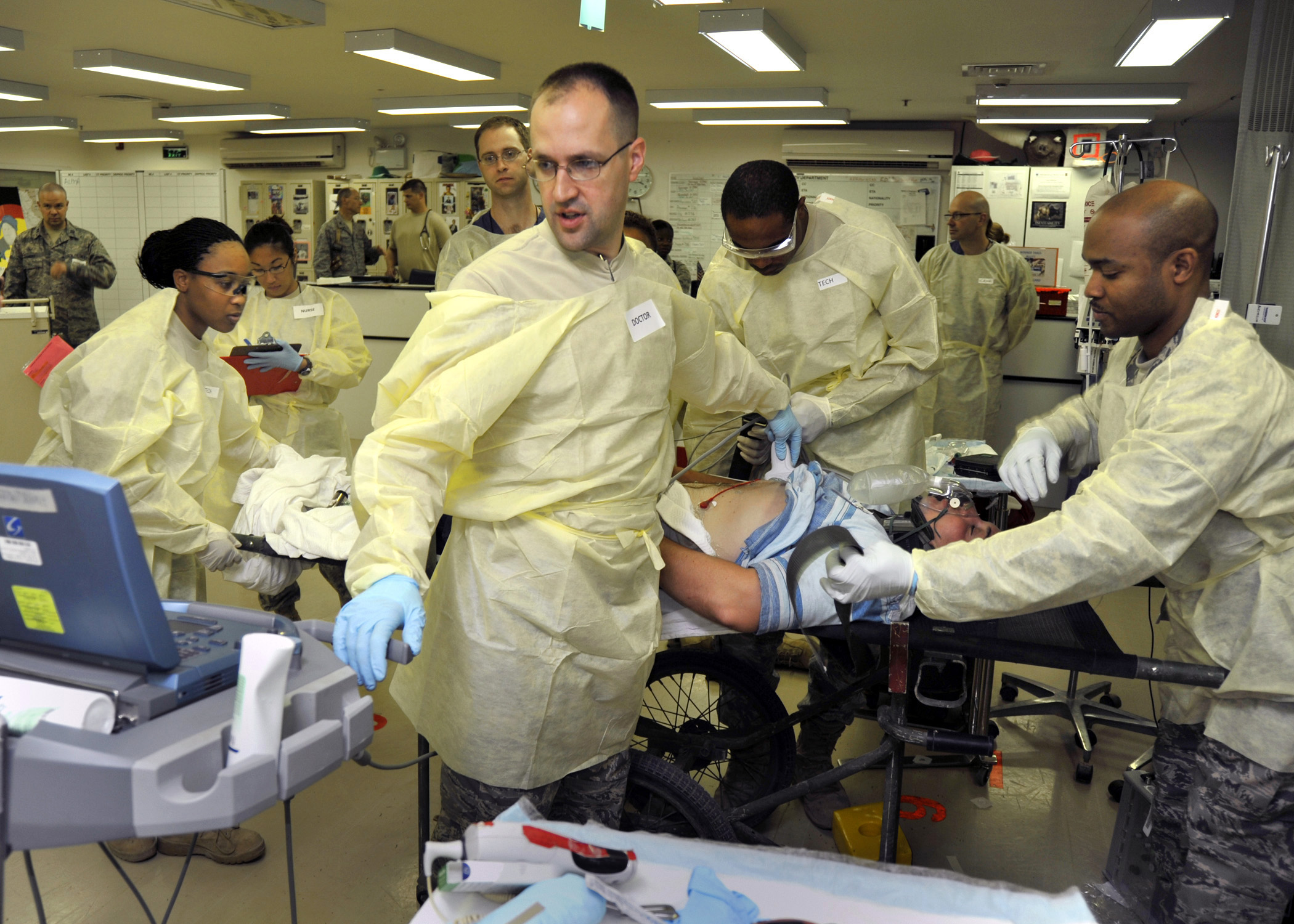 Medical personnel simulate emergency treatment during a mass casualty exercise at Balad's Air Force Theater Hospital.